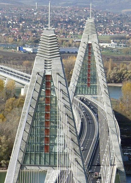 Megyeri híd, Hungary, aerial photography